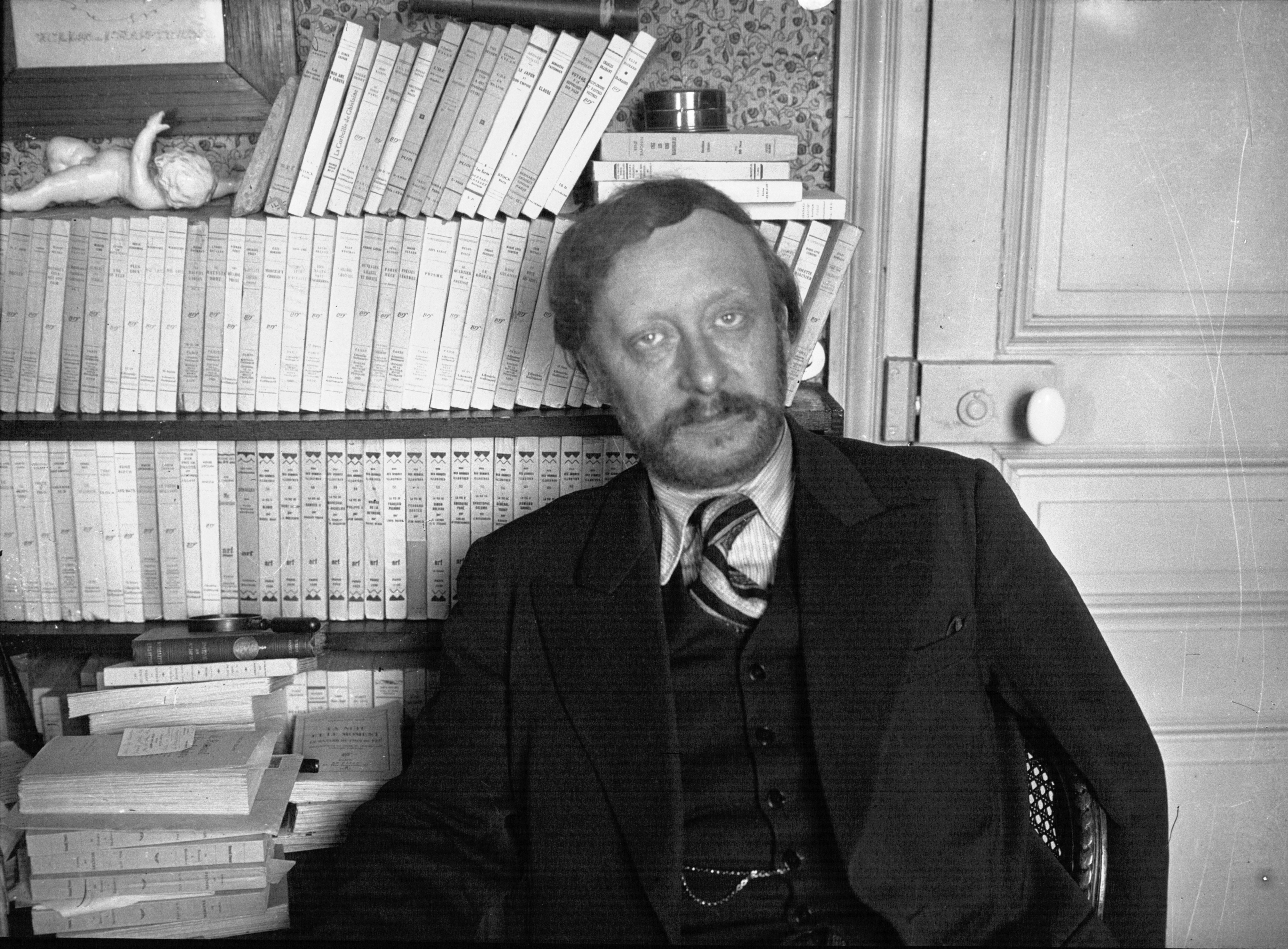 French poet Fernand Fleuret (1883-1945).